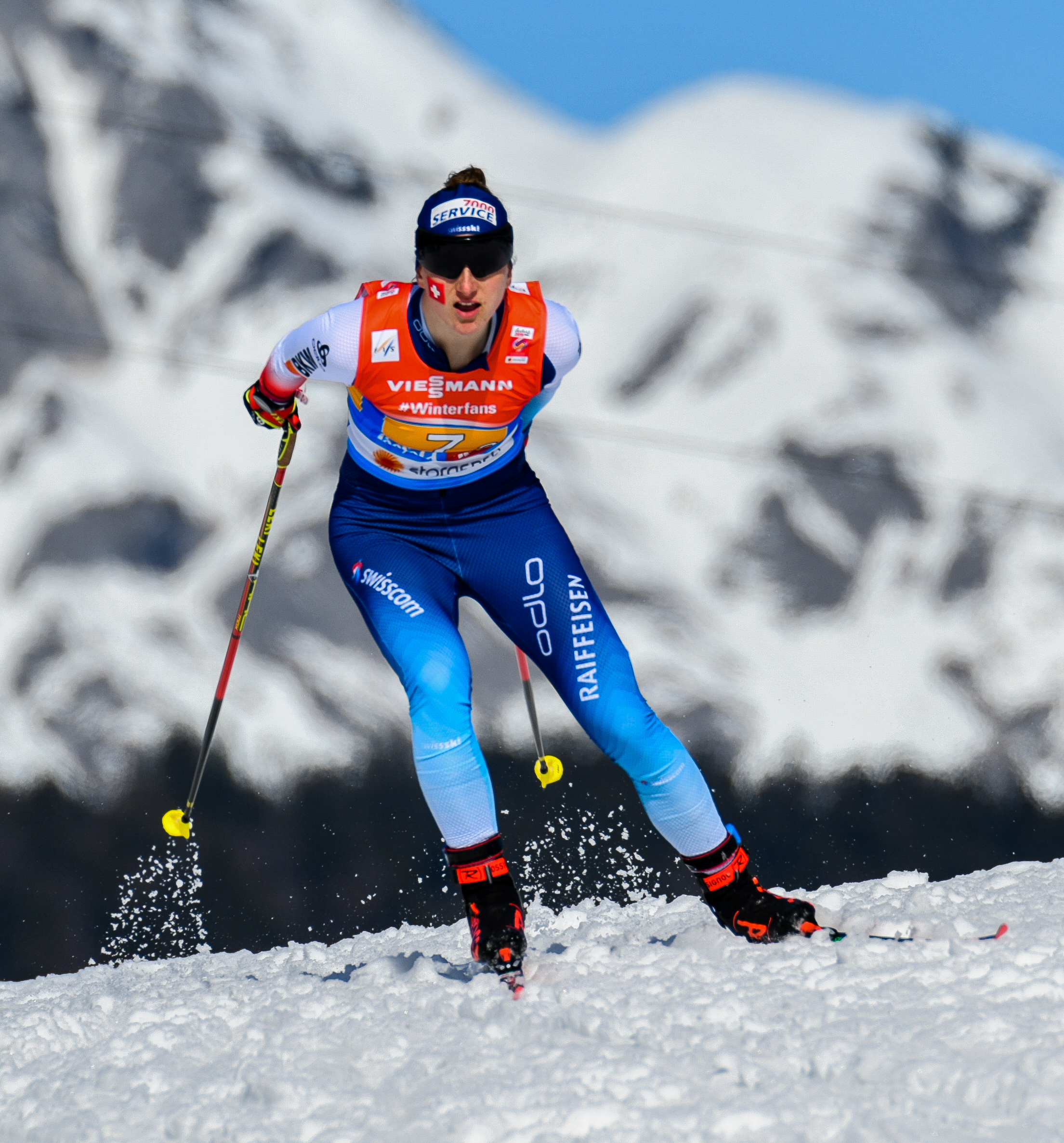 FIS Nordic Wolrd Ski Championships Seefeld 2019 - Ladies 4x5km Relay Classic/Free. Picture shows Lydia Hernickel (SUI).